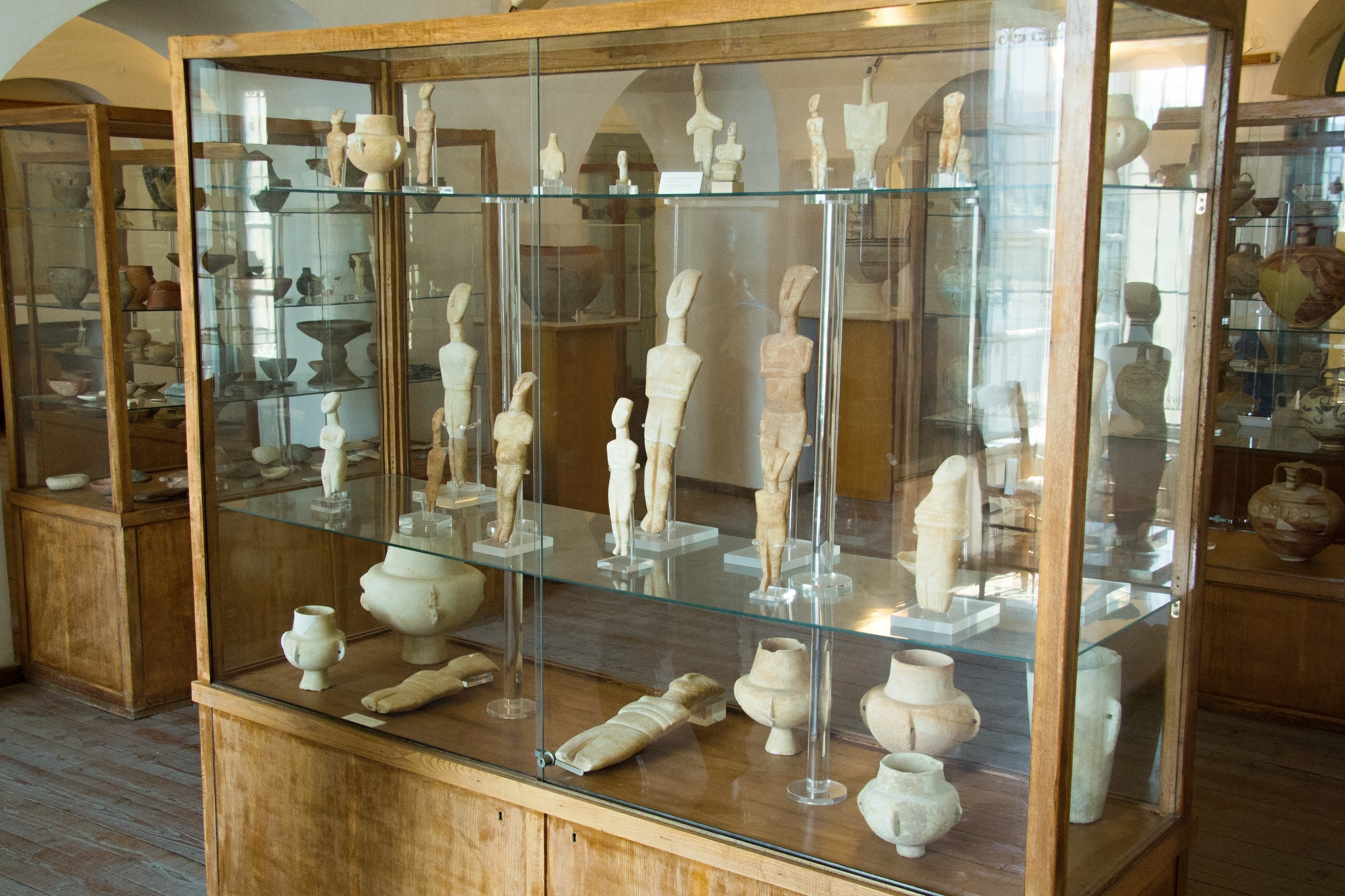 Case 13 of Cycladic Collections in the Archaeological Museum of Naxos: Early Cycladic figurines and marble vases from various places in the Naxian countryside (and a Neolithic steatopygous female figurine from Sangri on Naxos).